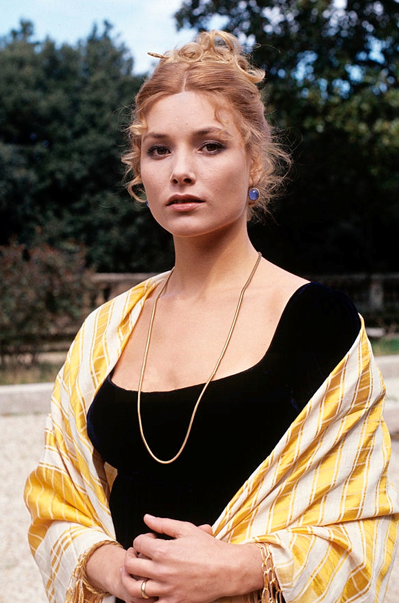 Swedish actress Janet Agren wearing the stage costume used in the TV series L'amaro caso della baronessa di Carini. Italy, 1975.